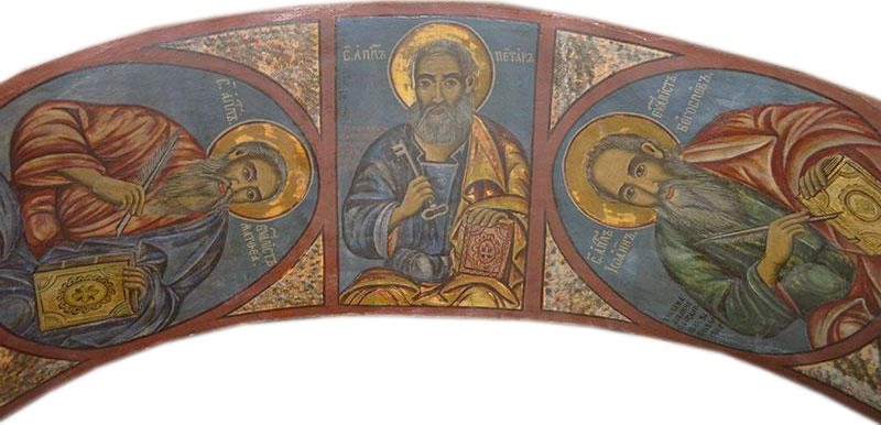 St. Peter and Paul Church in Dolni Vartogosh Detail from Zafir Vasilkov